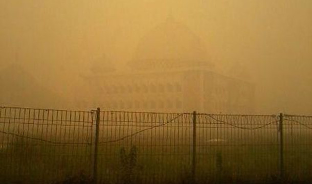 South East Asia haze 2015 in Darussalam Grand Mosque, Palangkaraya, Indonesia